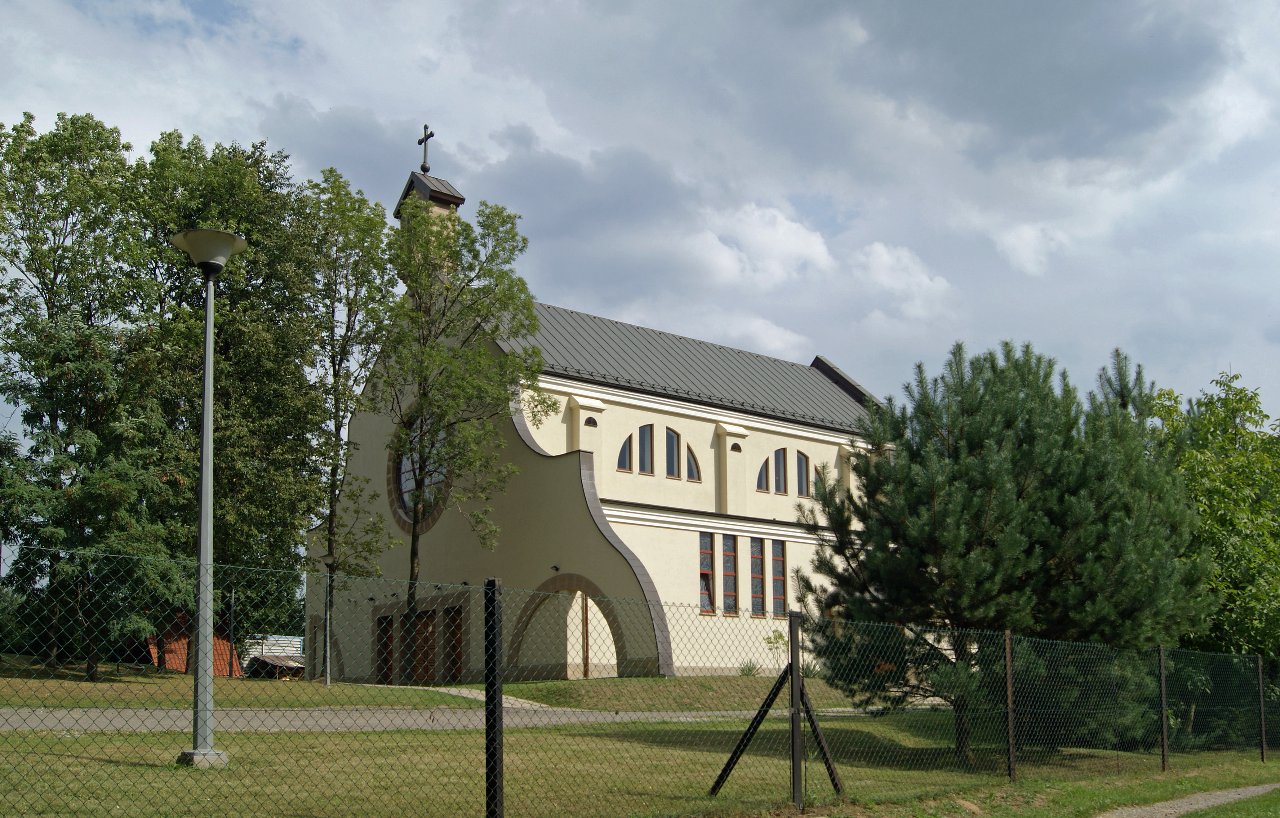 St. Mary Magdalene Church (design. 2002), 35 Dozynkowa street, Krakow, Poland